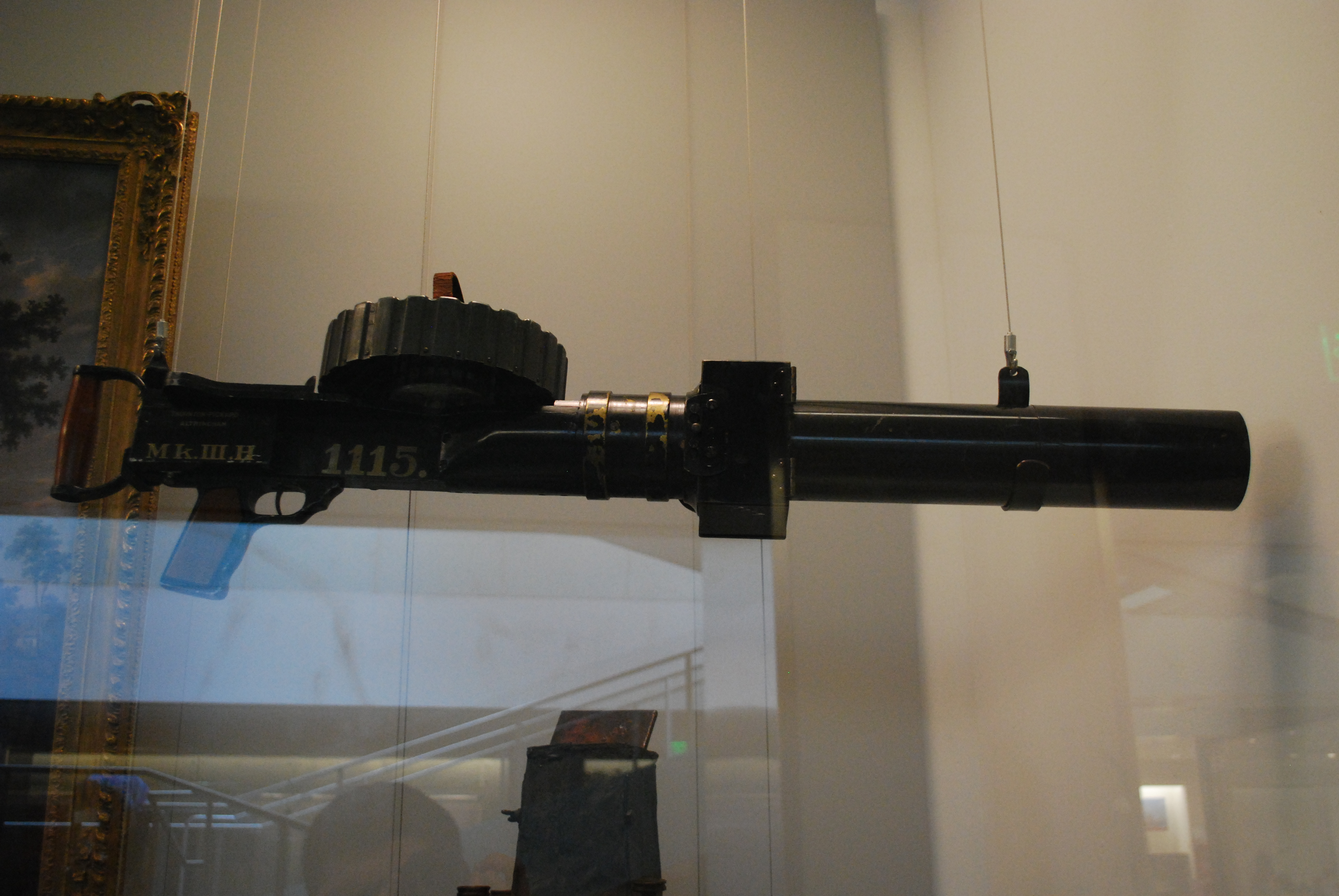 A Thornton-Pickard Mark III Aerial Gun. An aerial camera which was used in WWI by aerial observers allonside pilots. My photograph. On display at the Smithsonian Institution National Museum of American History.